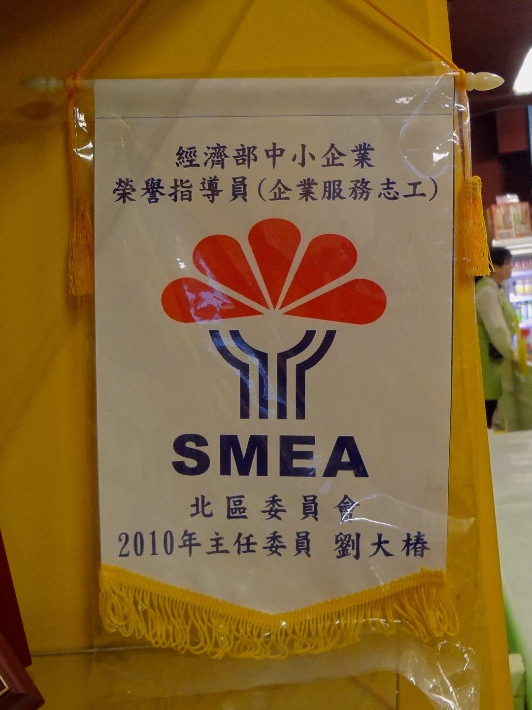 Small and medium-sized enterprises emeritus instructors' silk banner of Ministry of Economic Affairs, Republic of China, 2010. The logo of Small and Medium Enterprise Administration, MOEA is on the silk banner.